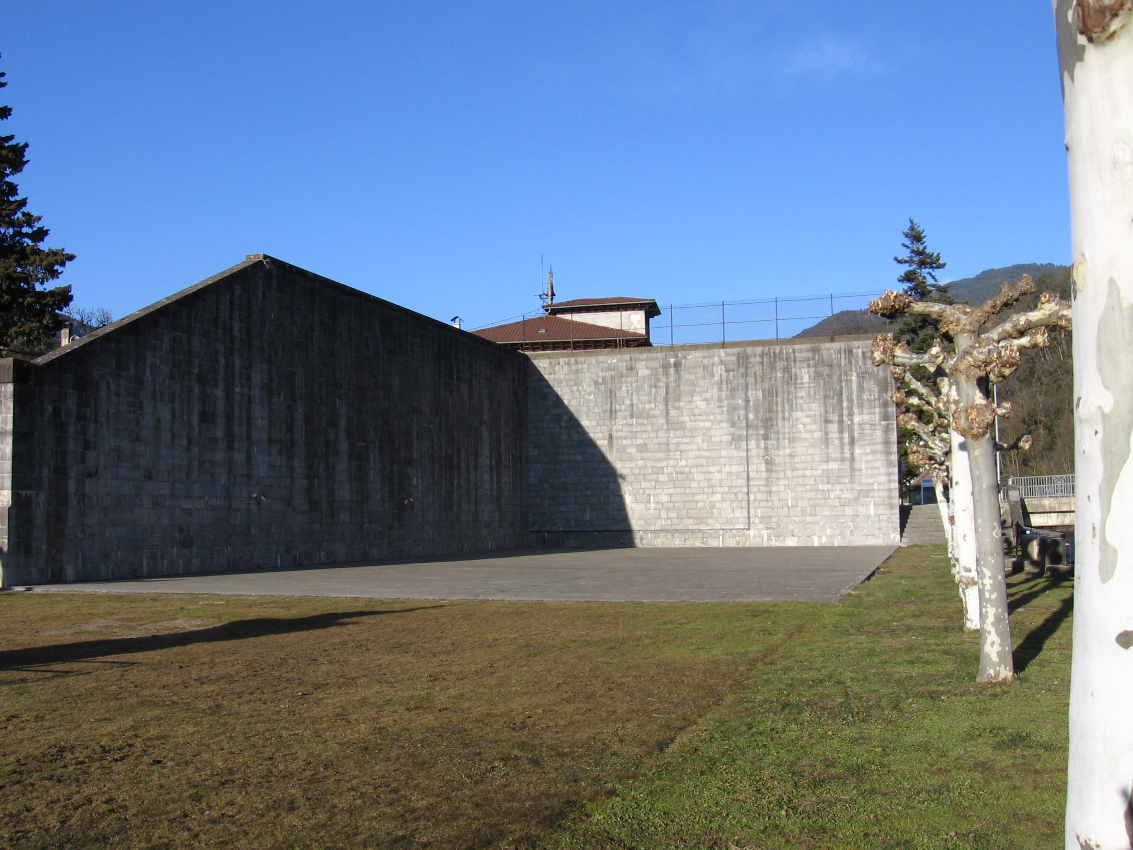 classic pelota playground frontón in Roncal, Navarra